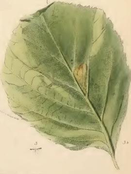 Stainton’s Natural History of the Tineina (1855–1873): Phyllonorycter rajella mined alder leaf